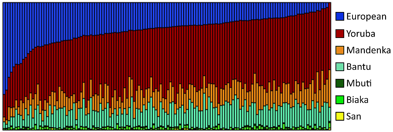 Individual ancestry estimates for 128 African Americans based on analysis of more than 450,000 SNPs. Cropped from File:PCA and individual ancestry estimates for African Americans.png.